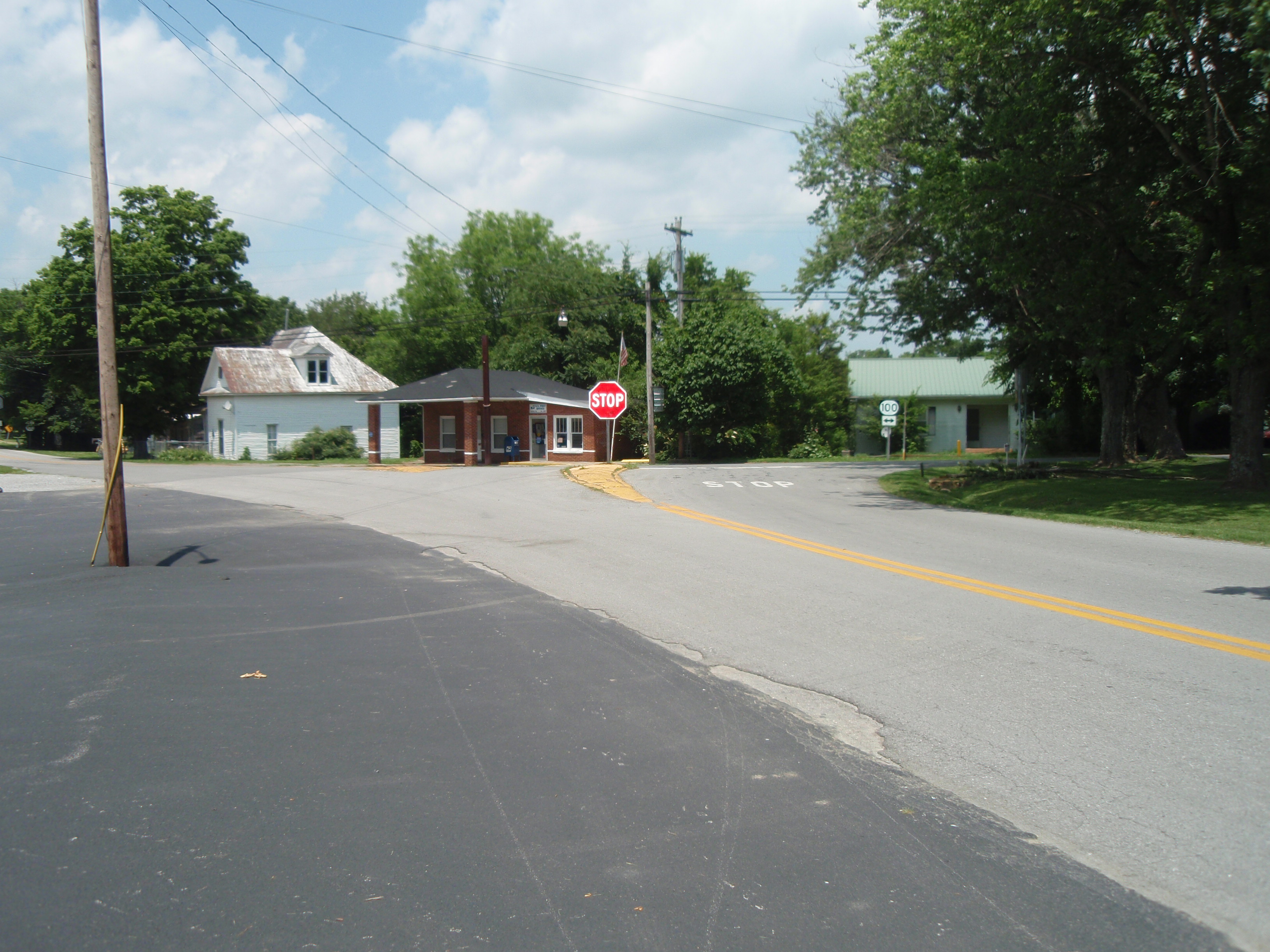 Street in Holland, Kentucky